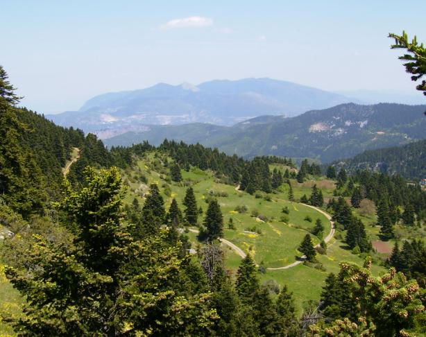 Oiti, mountain on Greece